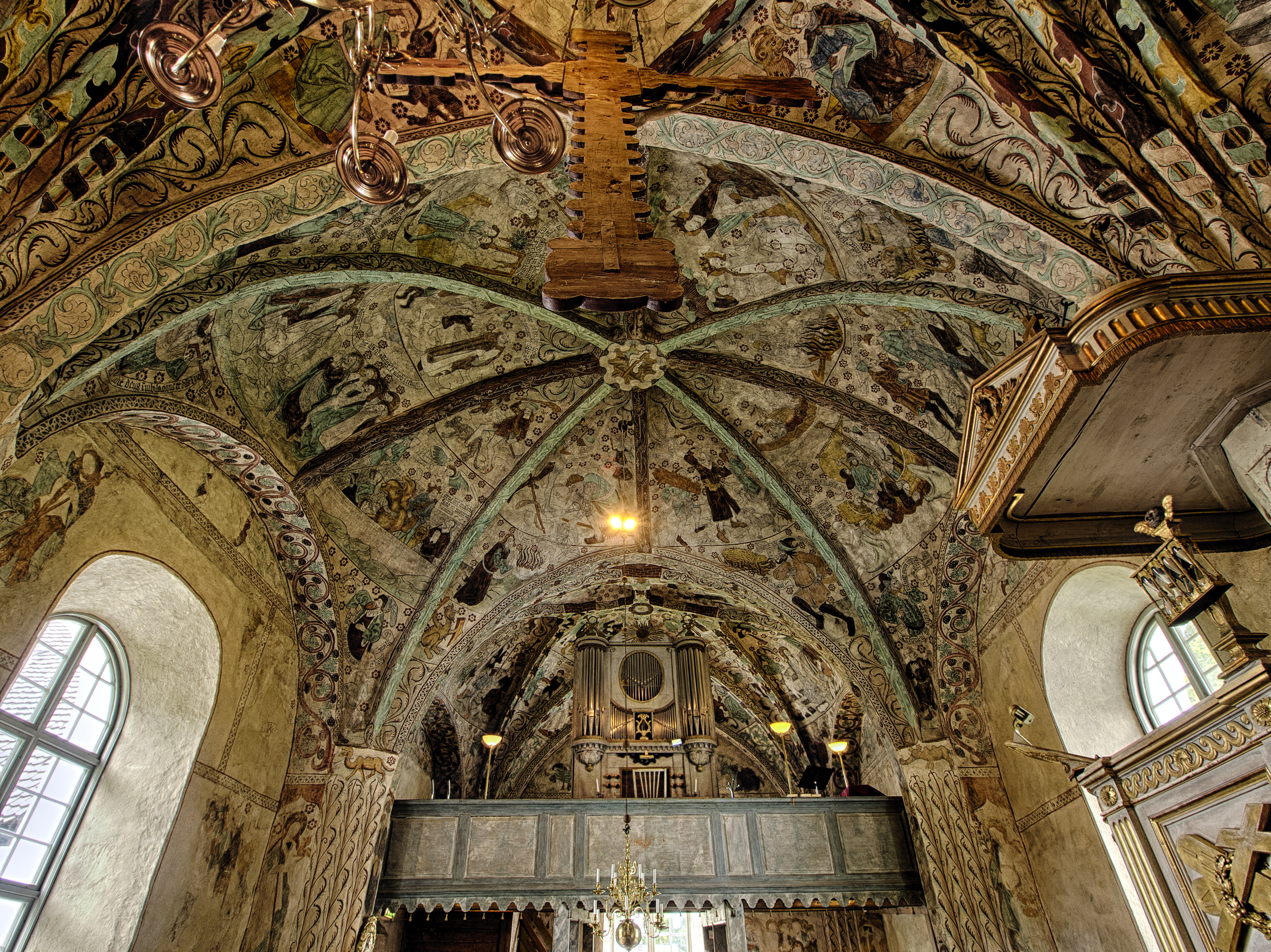 Interior from the Härkeberga Curch, HDR